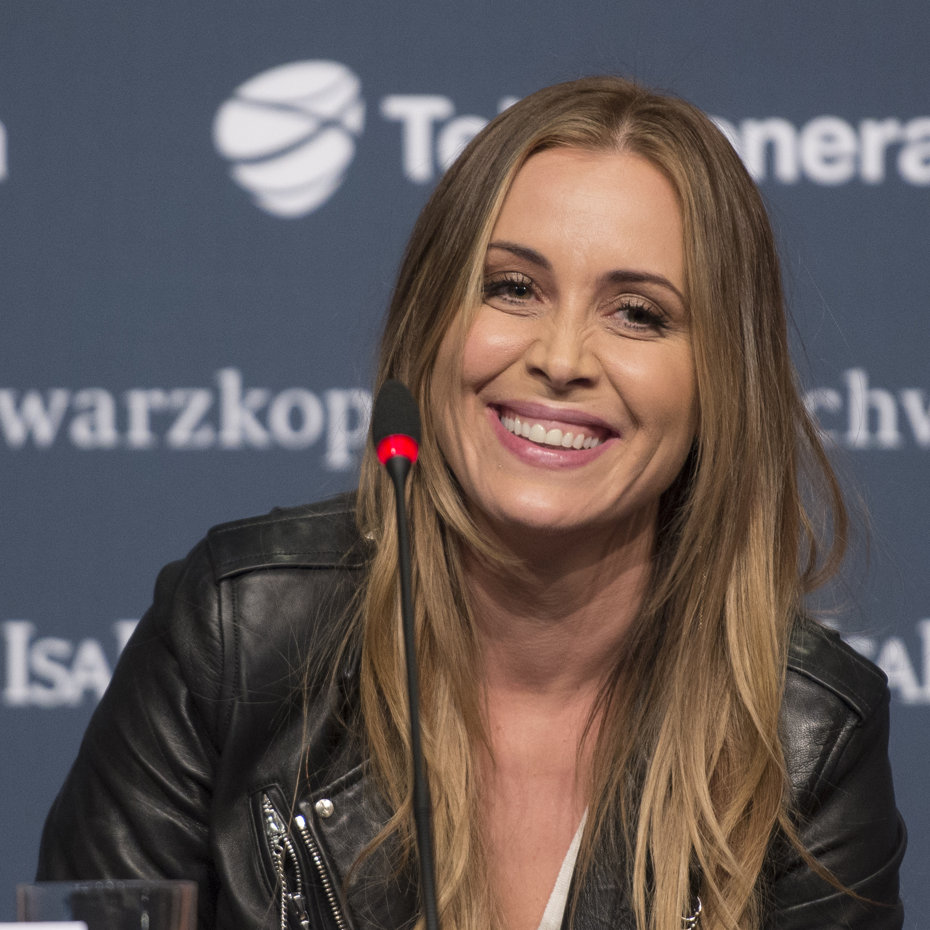 Anouk at a press conference during the Eurovision Song Contest 2013 Malmö. (Help translate this text)